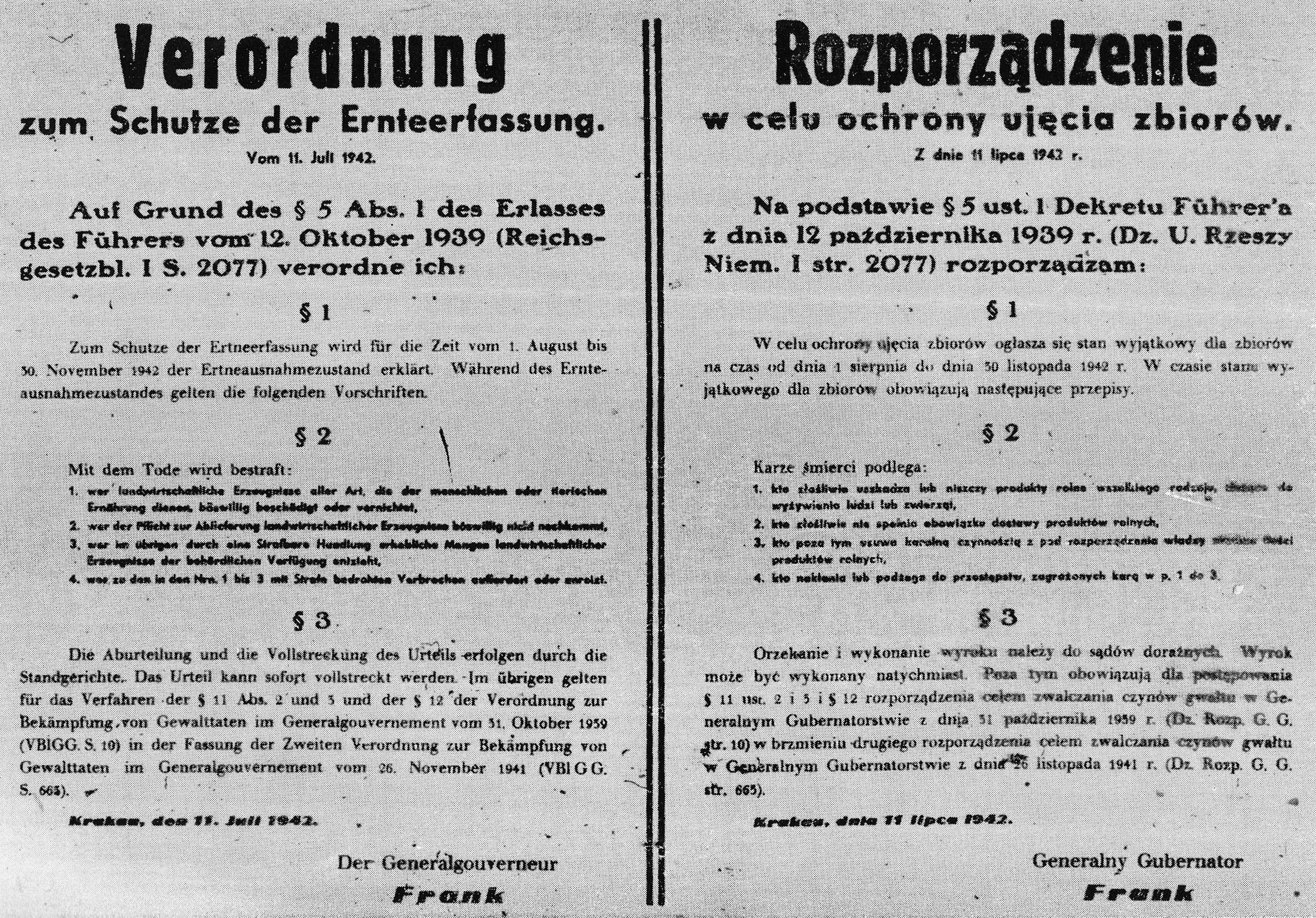 Regulation of governor Hans Frank imposing a state of emergency during the harvest in 1942